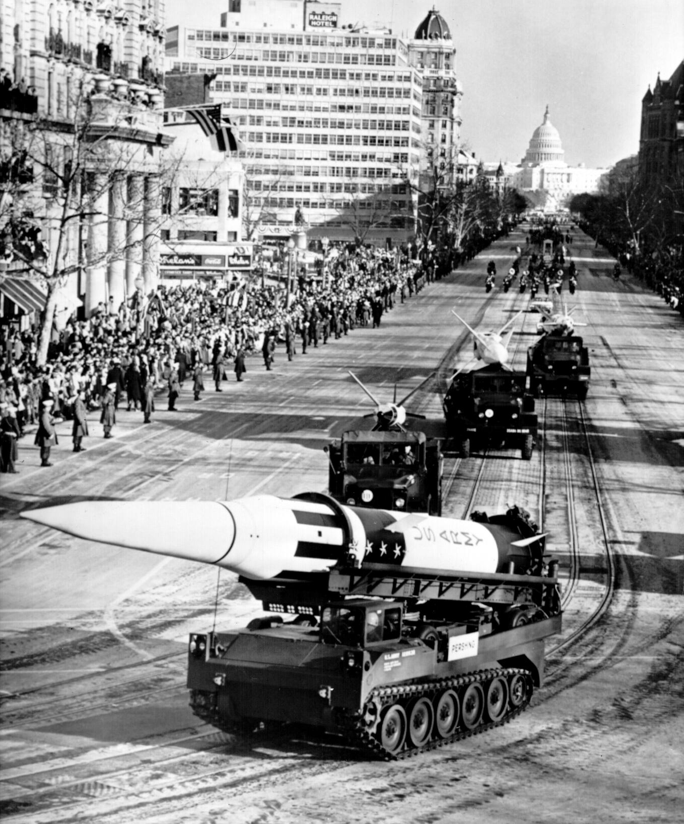 Washington— Missiles in Parade —An Army Pershing missile on a tank-like carrier catches the sunlight as today's inaugural parade draws attention of spectators along Pennsylvania Avenue. Other missile from front, are: LaCrosse, Nike Hercules and Nike Zeus. This view toward the Capitol was made from a stand st the Treasury Department.